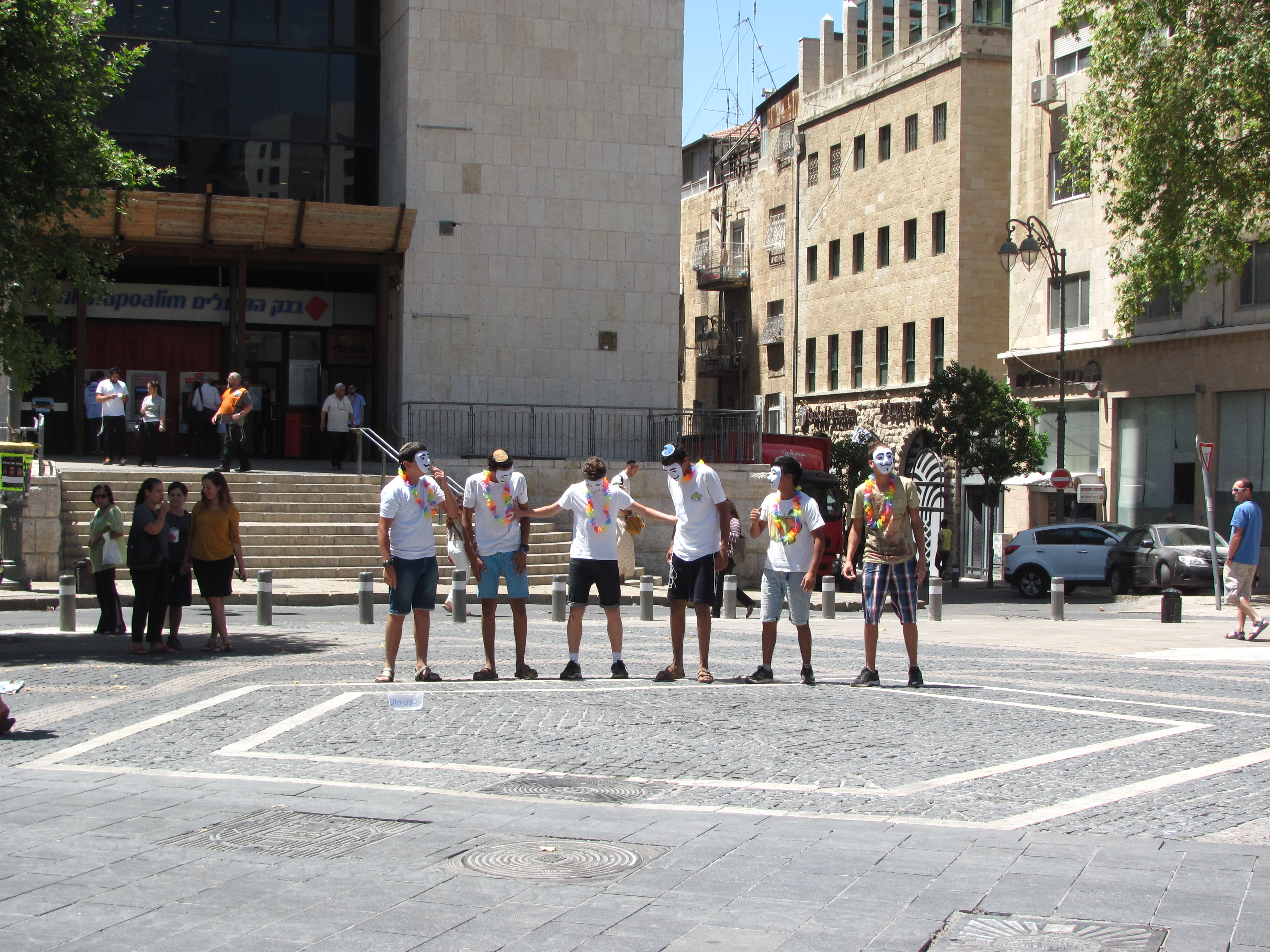 Street performers in Zion Square, Jerusalem, Israel